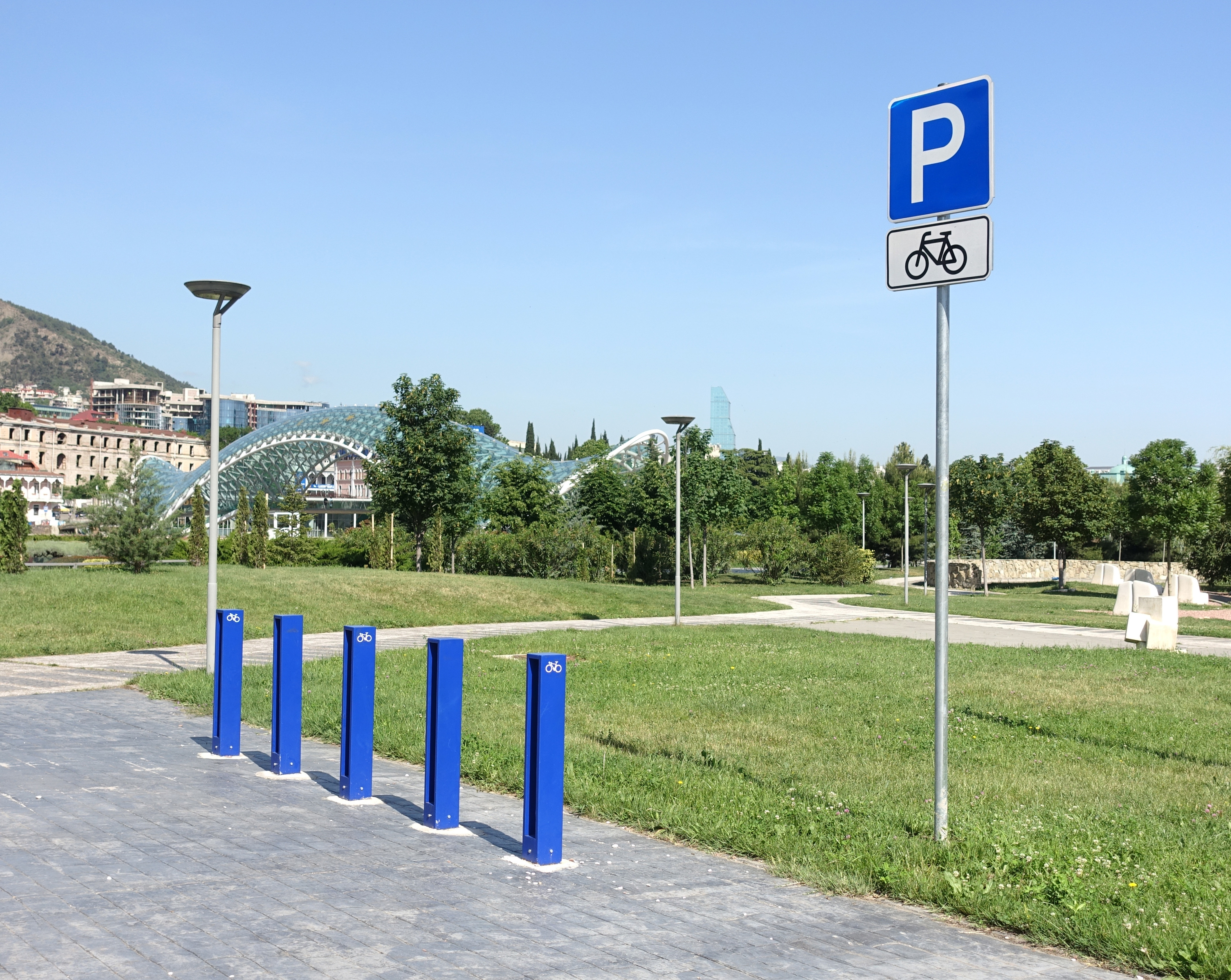 Bike parking in Rike Park, Tbilisi, Georgia.